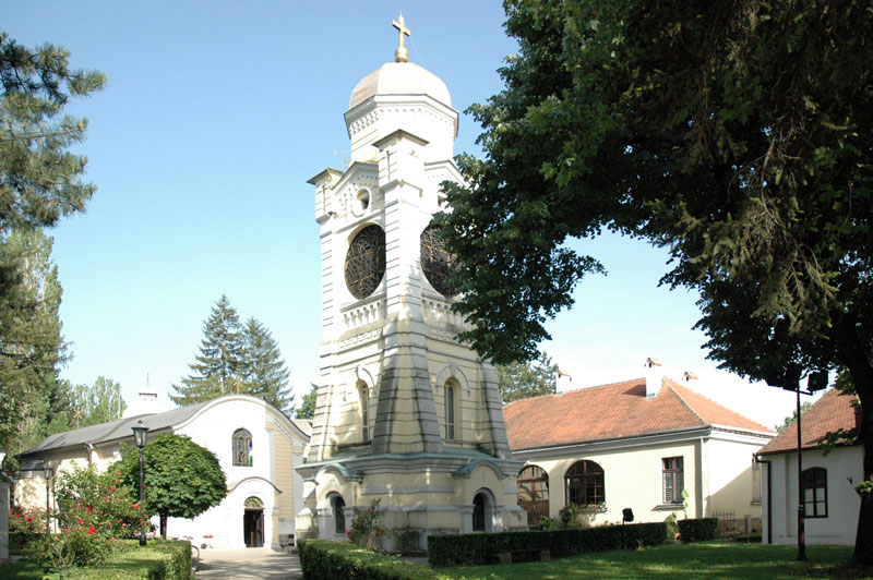 The old Church in Kragujevac